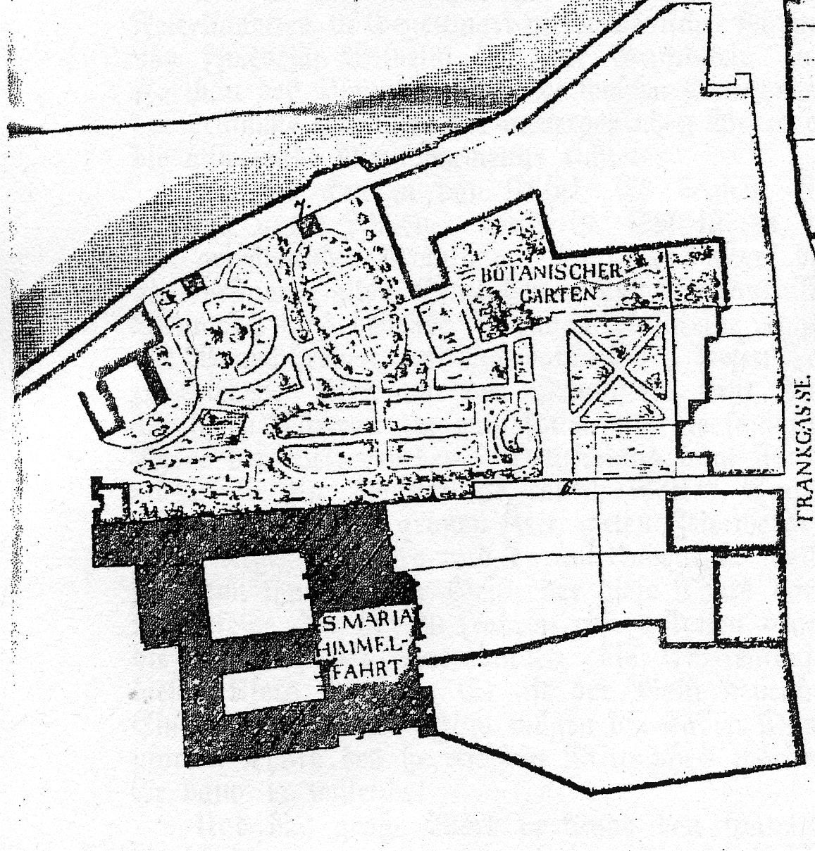 Cologne, map of garden area 1819